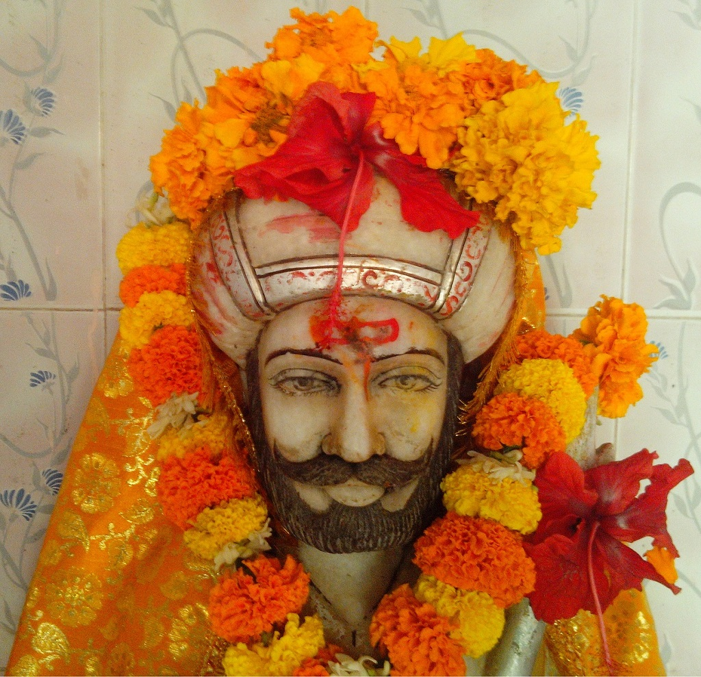 Charangbaba2013